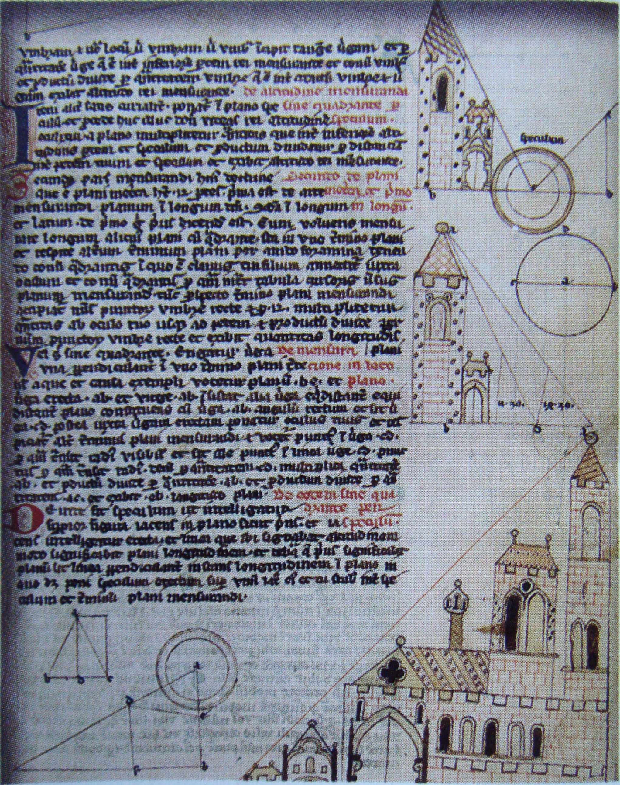 Theorica_Platenarum_by_Gerard_of_Cremone_13th_century